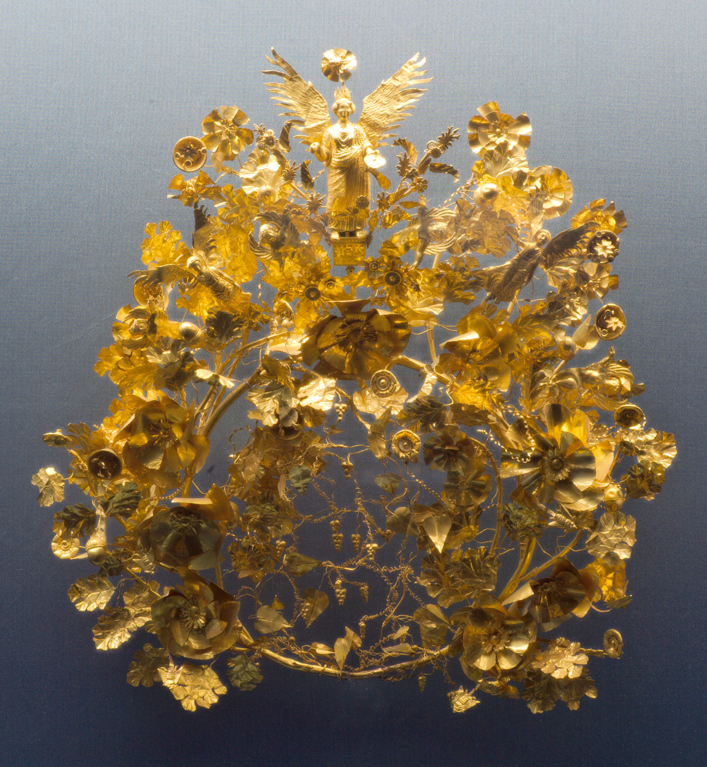 Golden decorated crown, funerary or marriage material, 370–360 BC. From a grave in Armento (Basilicata).